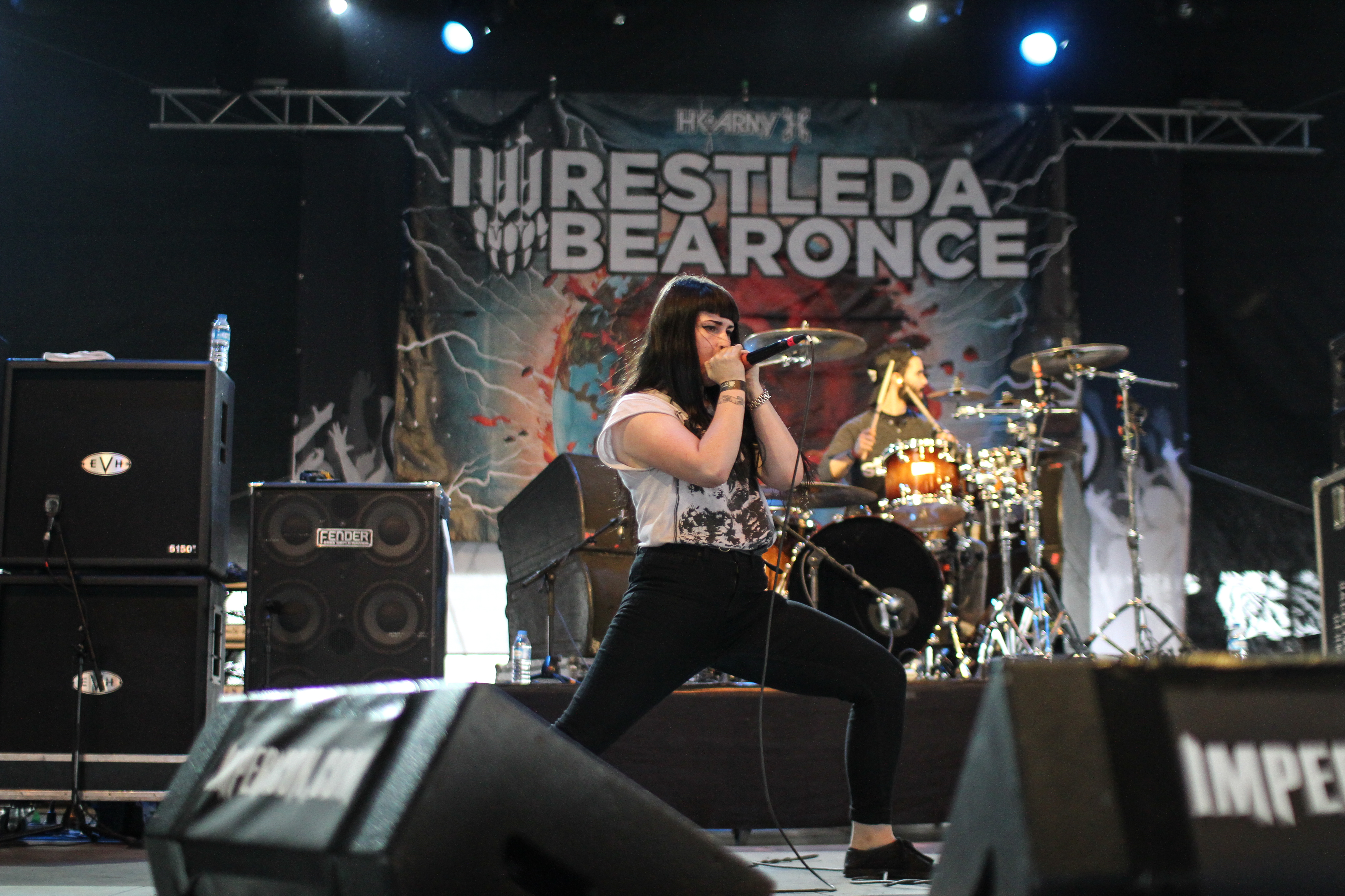 Festivalsommer This photo was created with the support of donations to Wikimedia Deutschland in the context of the CPB project "Festival Summer".